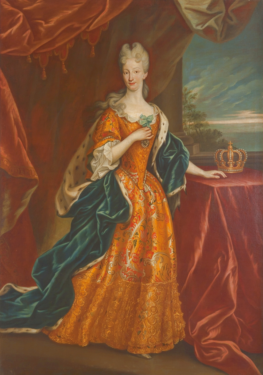 Elisabeth Farnese (1692-1766), wife of Philippe V and Queen of Spain, held at Caserta